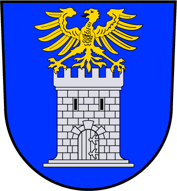 Coat of arms of Siersburg, district of Rehlingen-Siersburg